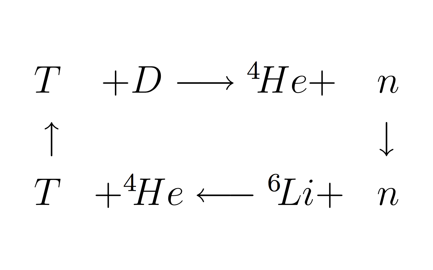 Hydrogen bombs require a specific reaction to produce tritium in situ and thus “burn” the naturally occurring elements D and Li. In this much-needed reaction tritium is produced from the neutron bombarded Li-6. Under conditions of sufficient confinement (i.e. temperature and compression) the reactions presented here form a loop chain reaction called the Jetter cycle (or Jetter's Cycle)